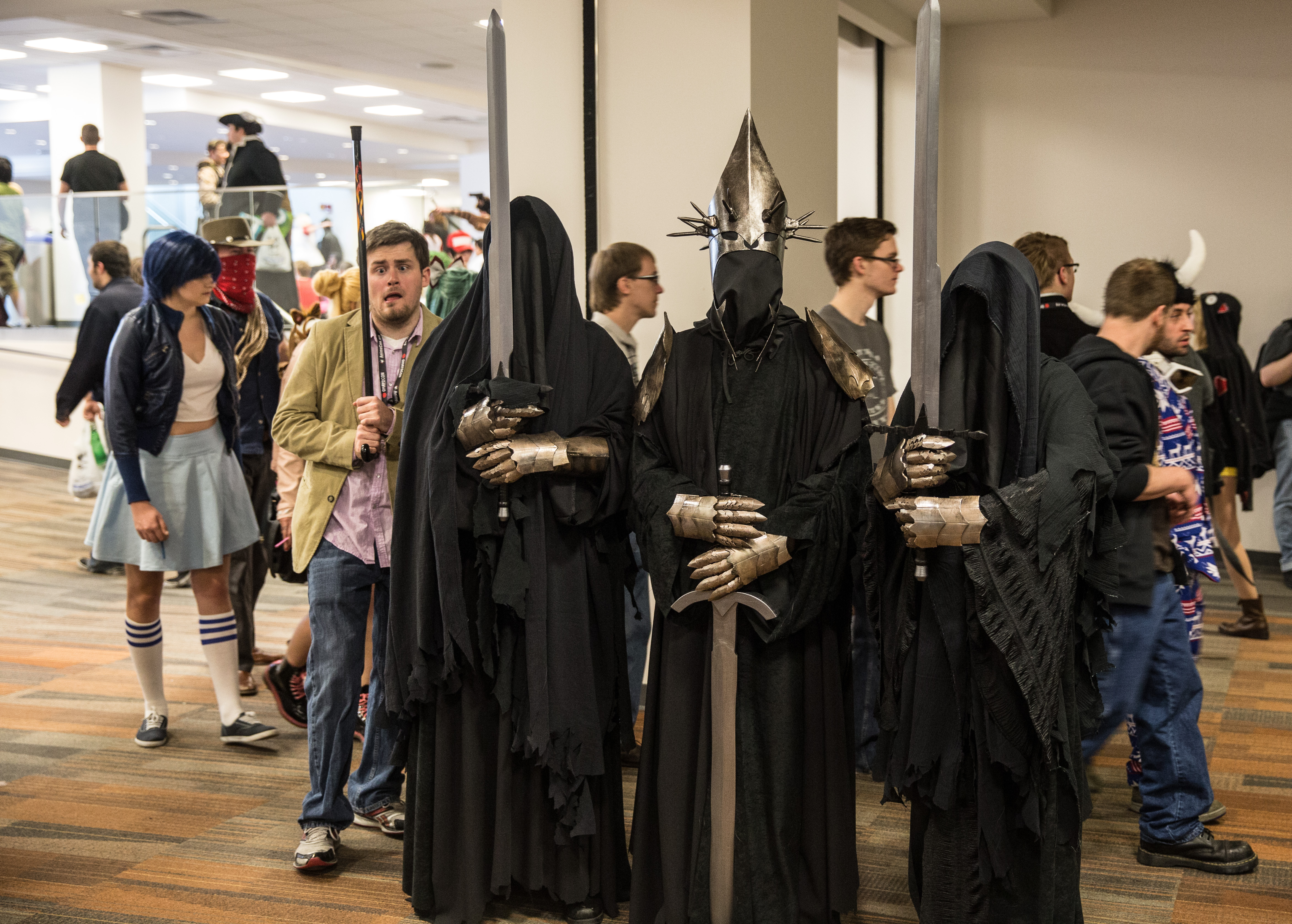 So, what happens when you photobomb a Ringwraith?